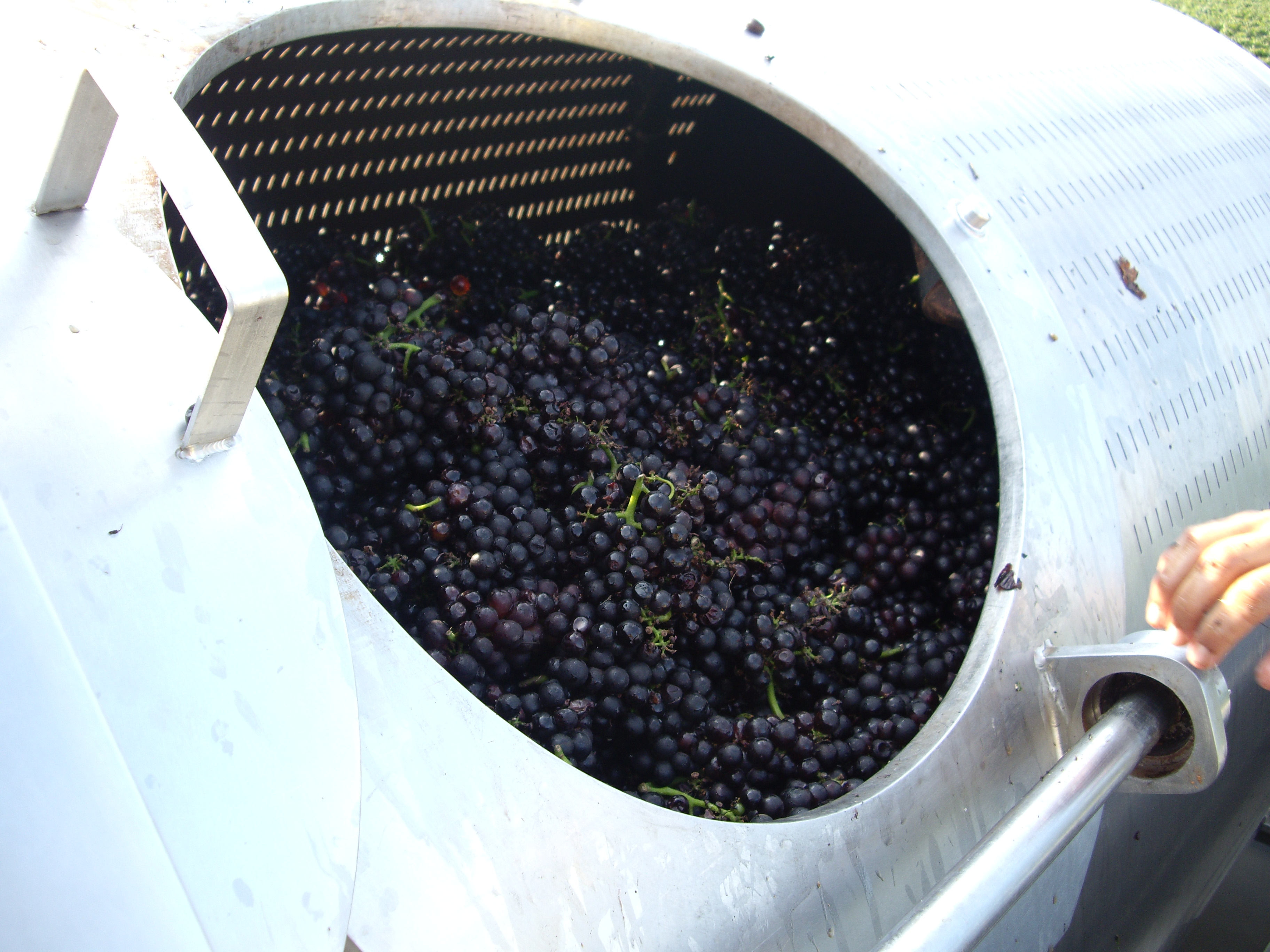 From author "Pinot noir grapes from down the street. These will go into a sparking wine. They're ready to be pressed, whole cluster."